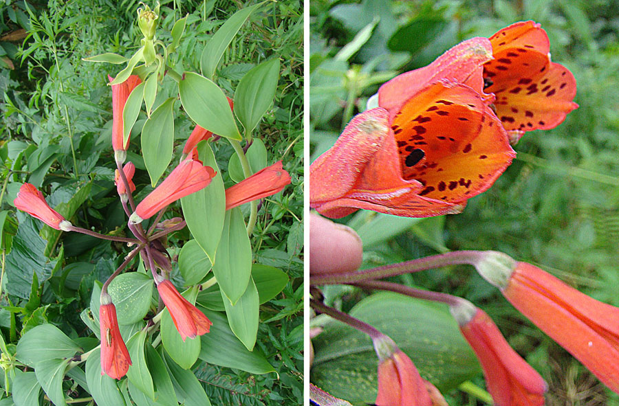 Found in highlands from southern Mexico to Panama. Photo from Toro Pass, Costa Rica. In context at